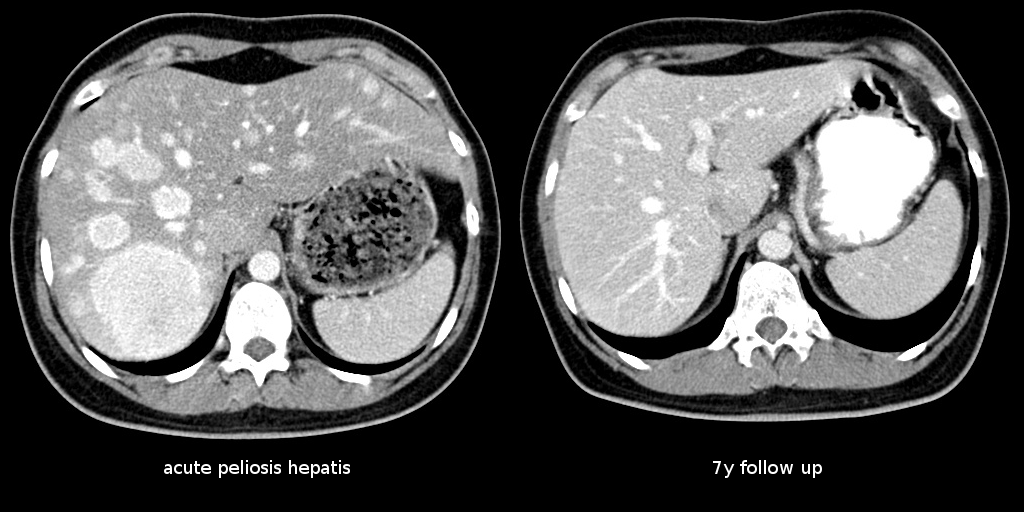 Follow up of a patient with peliosis hepatis over 7 years with full remission.